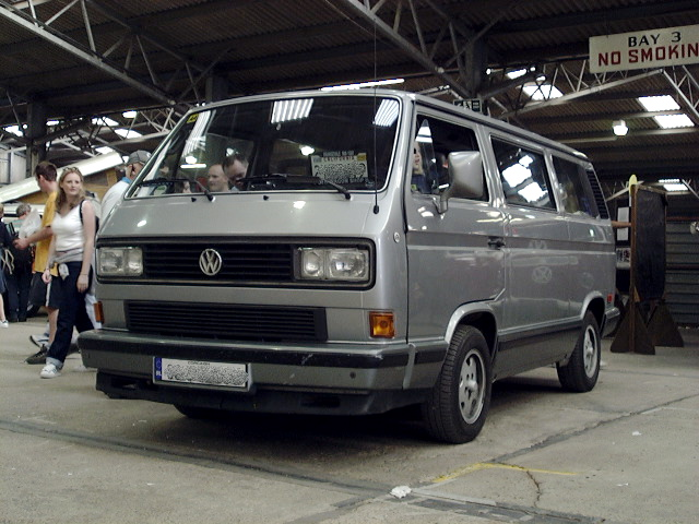 1988 Model VW Vanagon Wolfsburg Edition. My own vehicle, on show at Vanfest, UK. This is a Californian-spec vehicle.